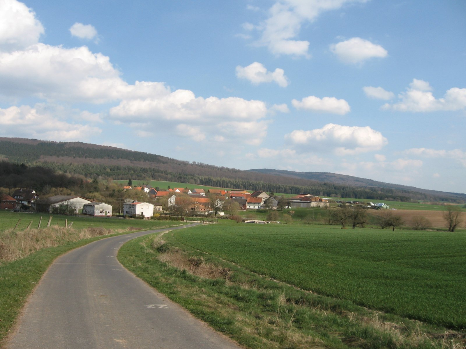 village Herbelhausen with Mountains "Kellerwald" (Hesse; Germany)